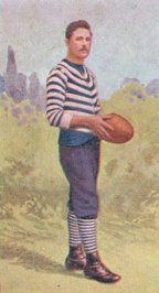 Geelong football player Teddy Rankin.